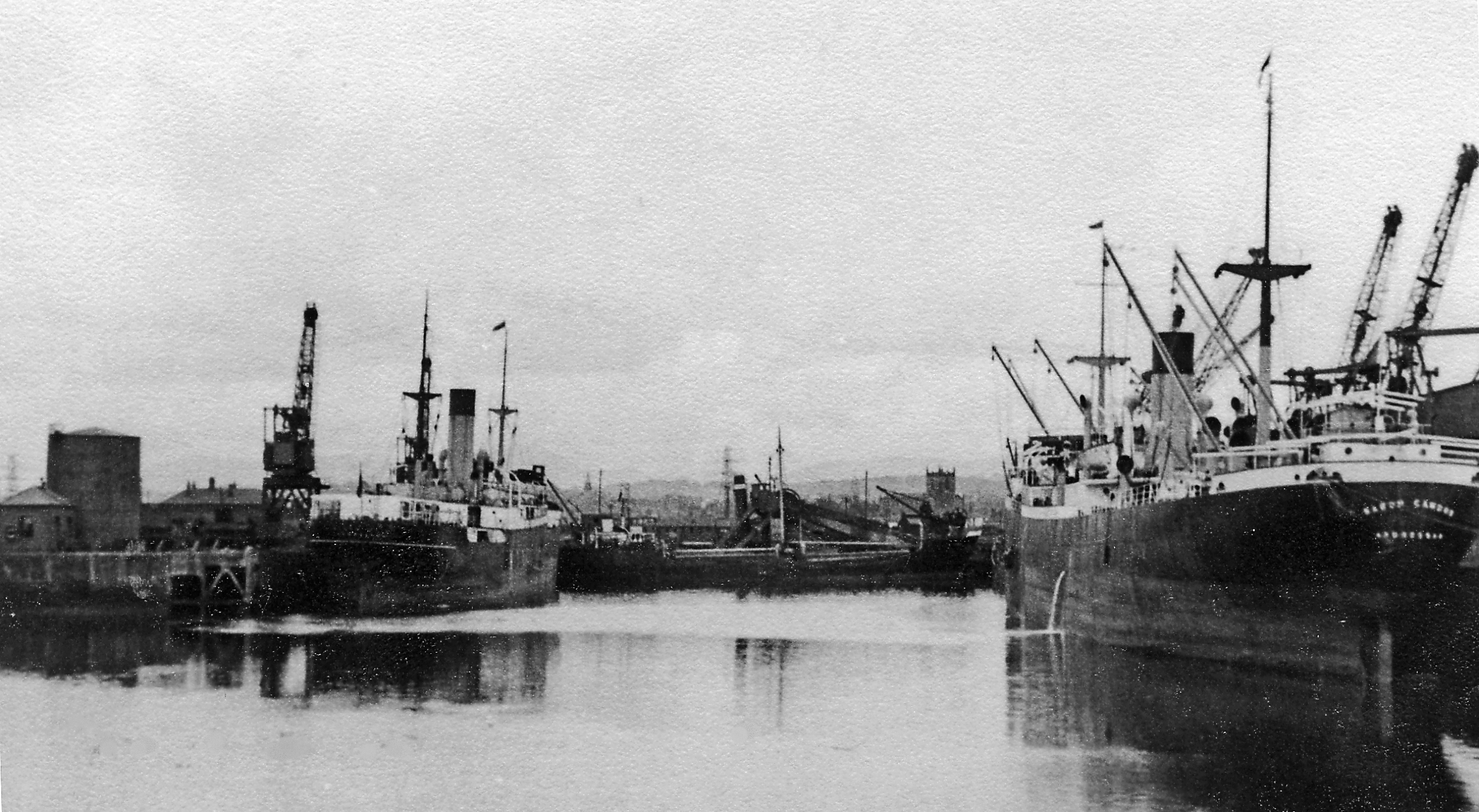 Workington Dock, with iron ore ships View eastward, towards the town. The ships have come from Sweden (Lulea) with ore for the steelworks at Workington.